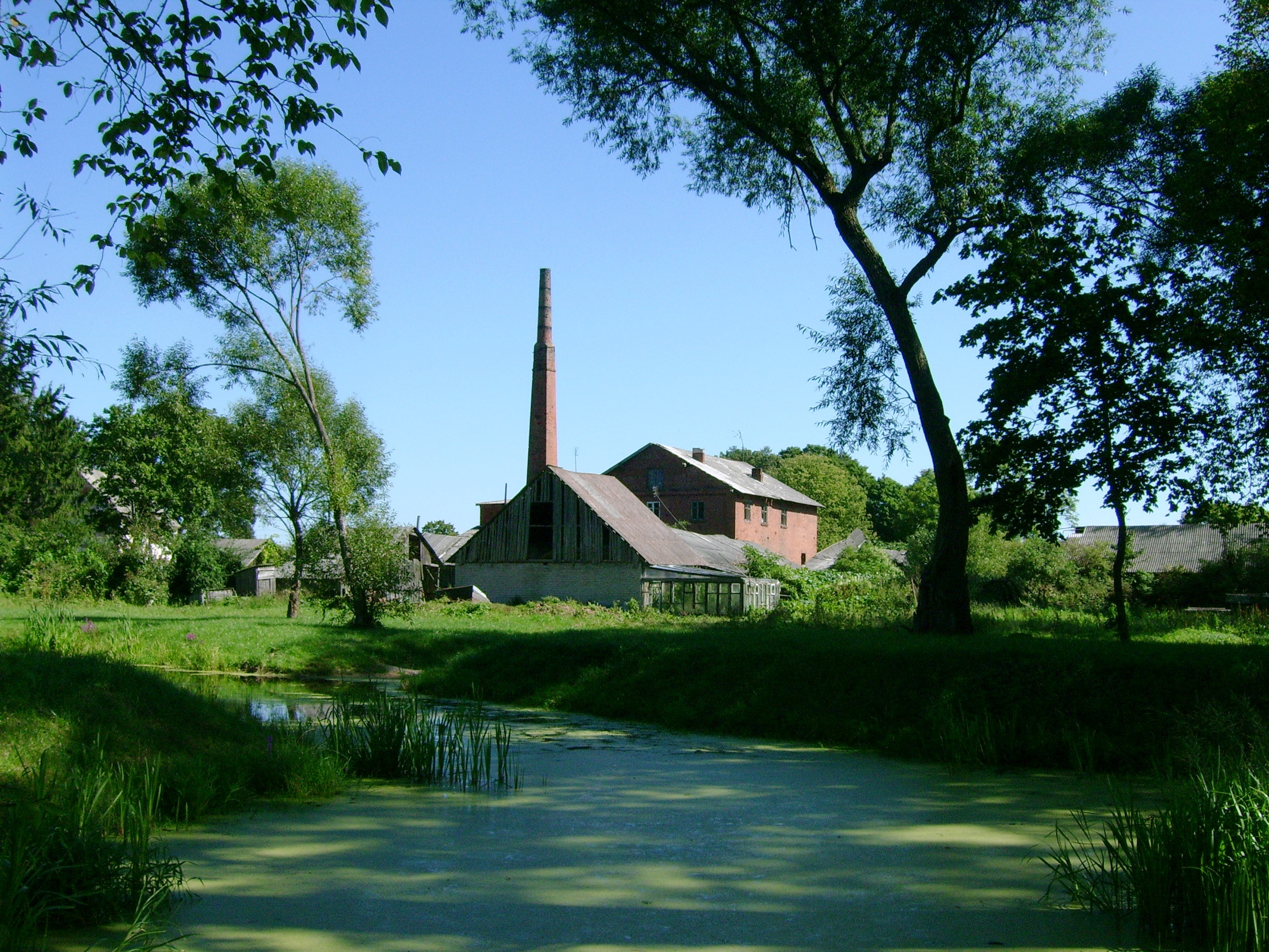 Distillery of Sereitlaukis manor